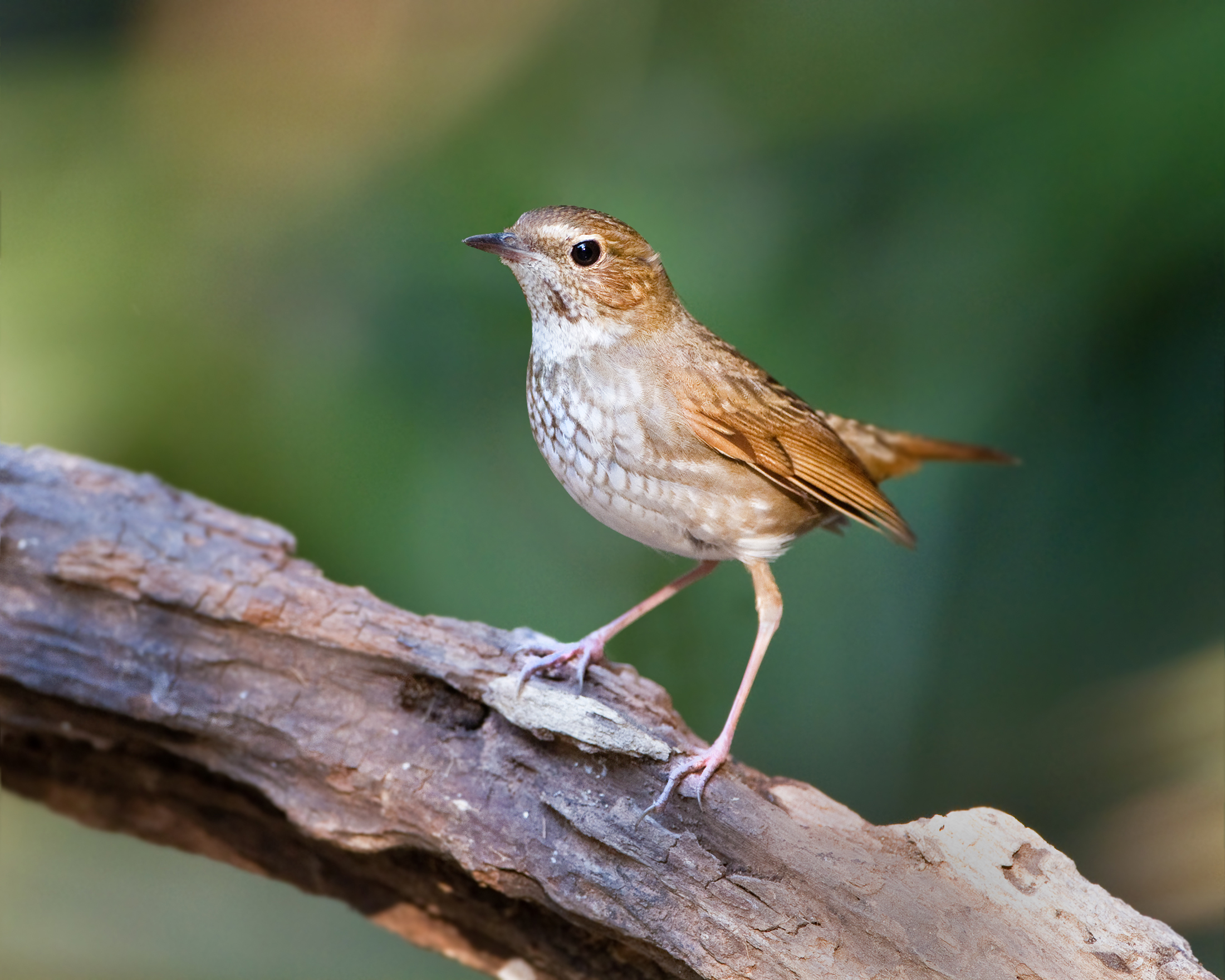 Rufous-tailed Robin (Luscinia sibilans), Khao Yai National Park, Pak Chong, Thailand